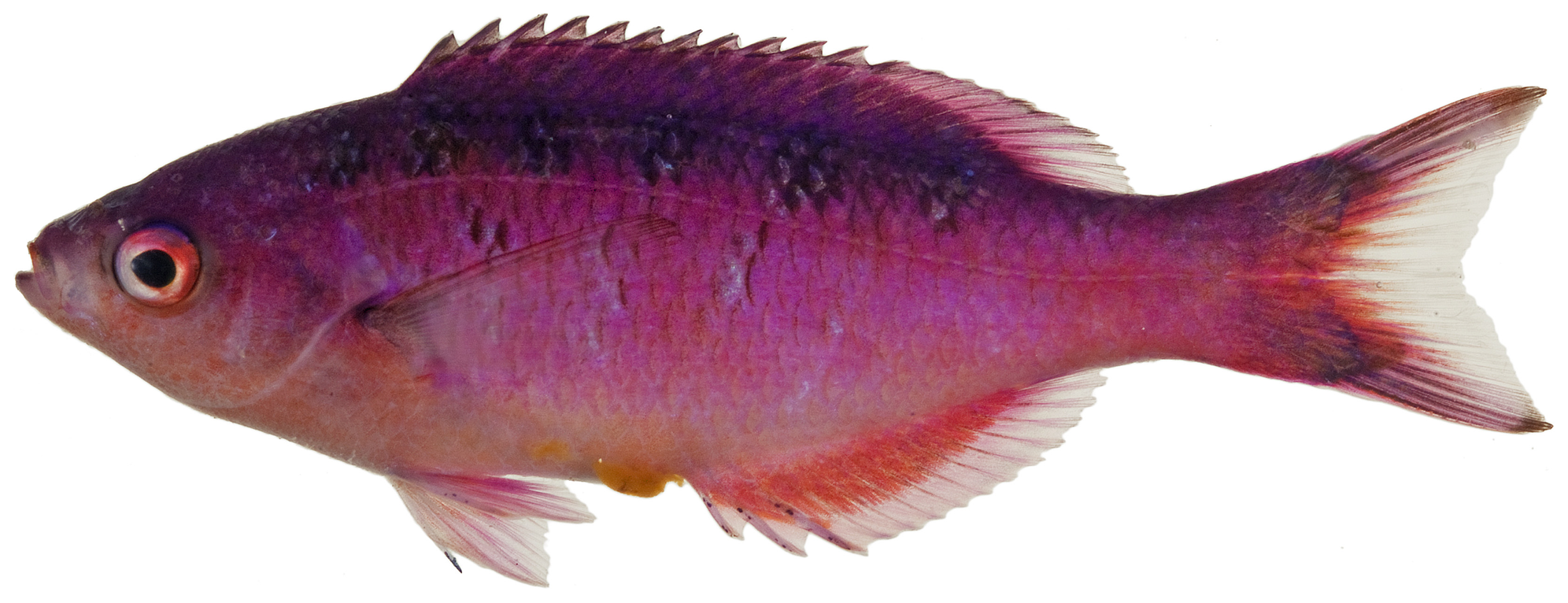 Clepticus parrae (Bloch & Schneider, 1801)—creole wrasse, 59.8 mm SL. Photo by JT Williams.